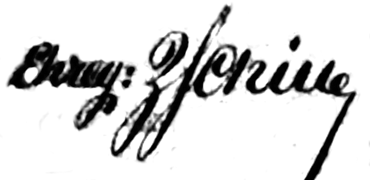 Signet Camillo Ehregott Zschille (1847-1910).